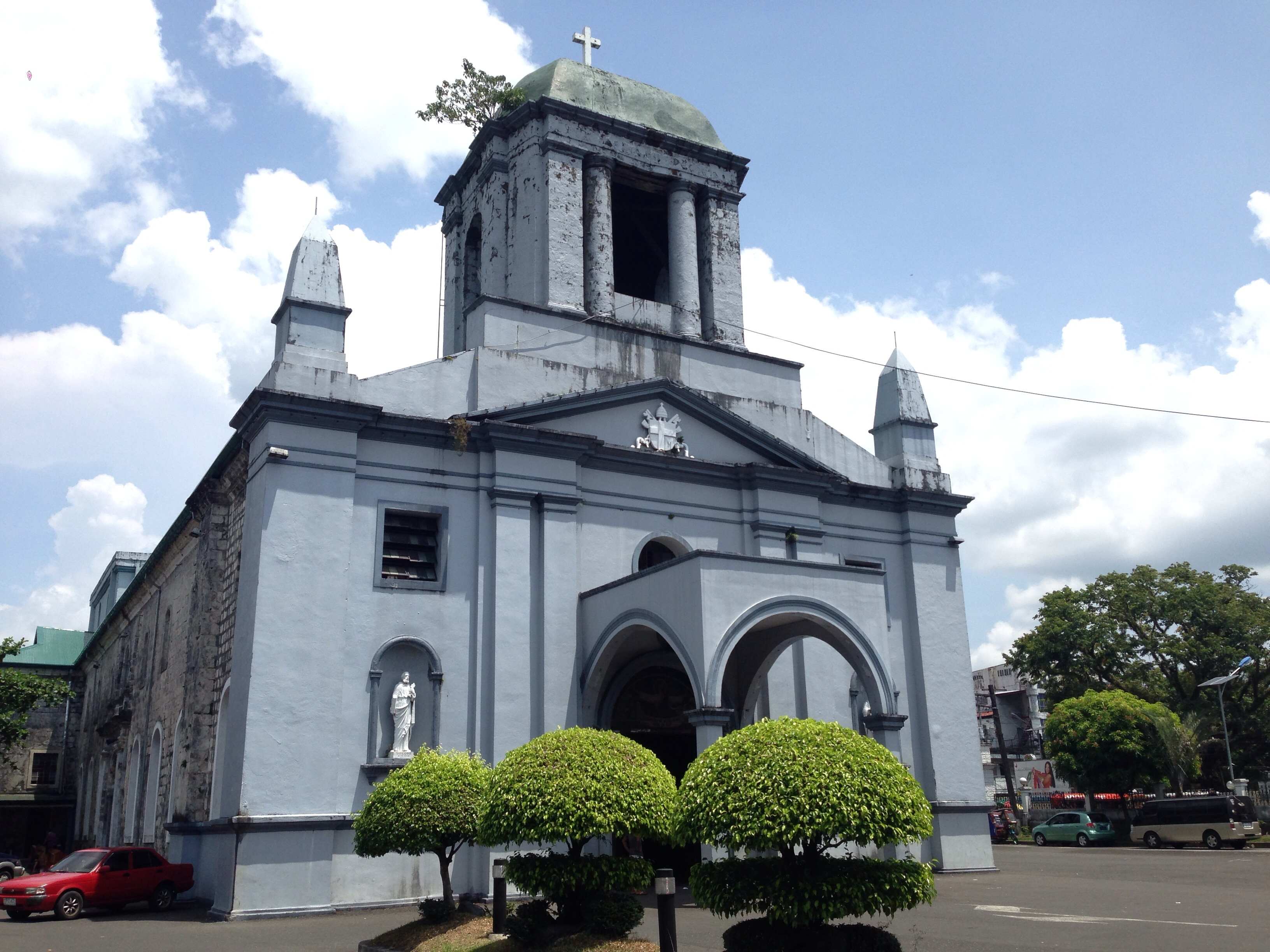 San Gregorio Magno Cathedral in Legazpi (Albay), Philippines